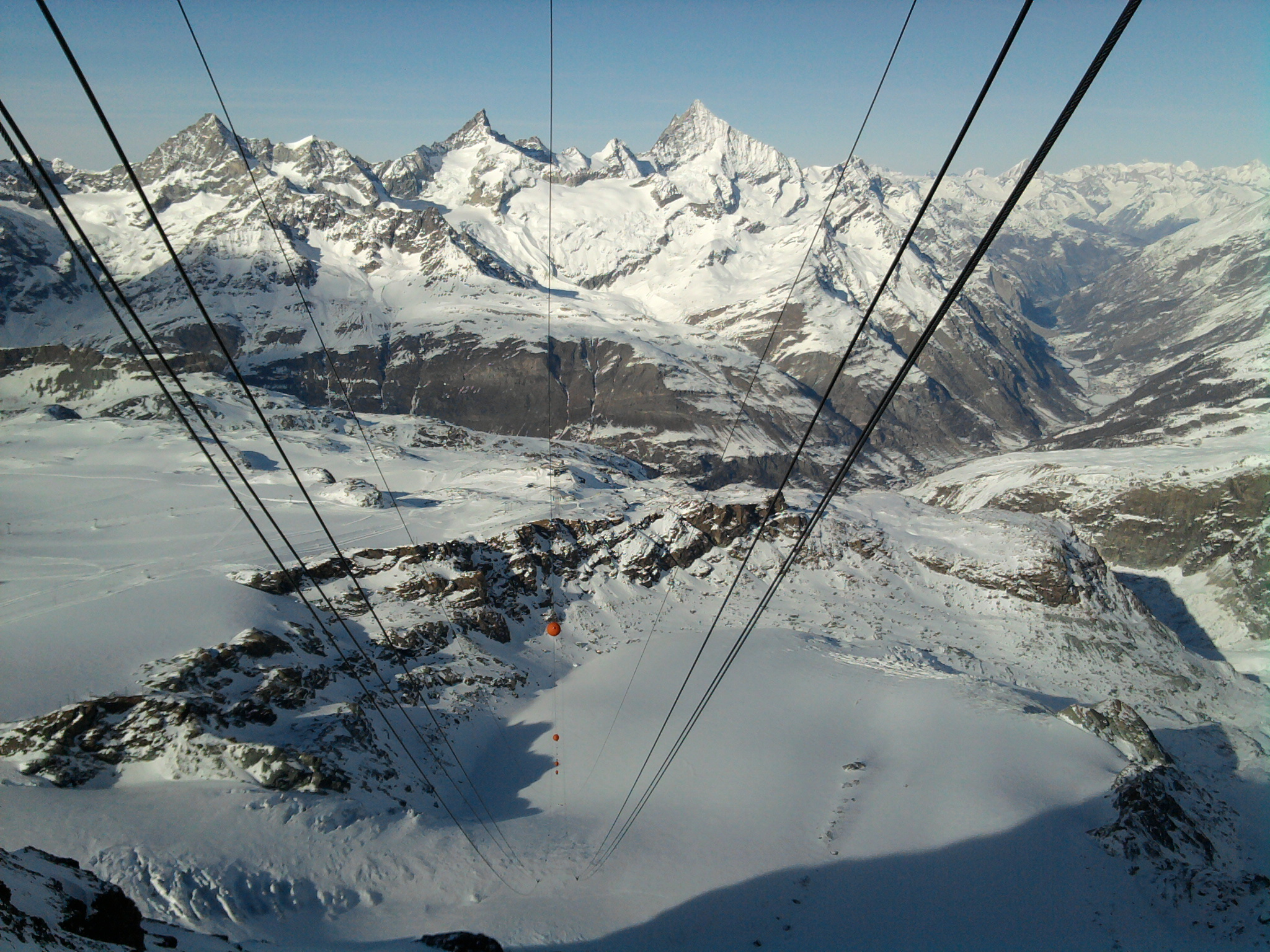 cable car Klein Matterhorn